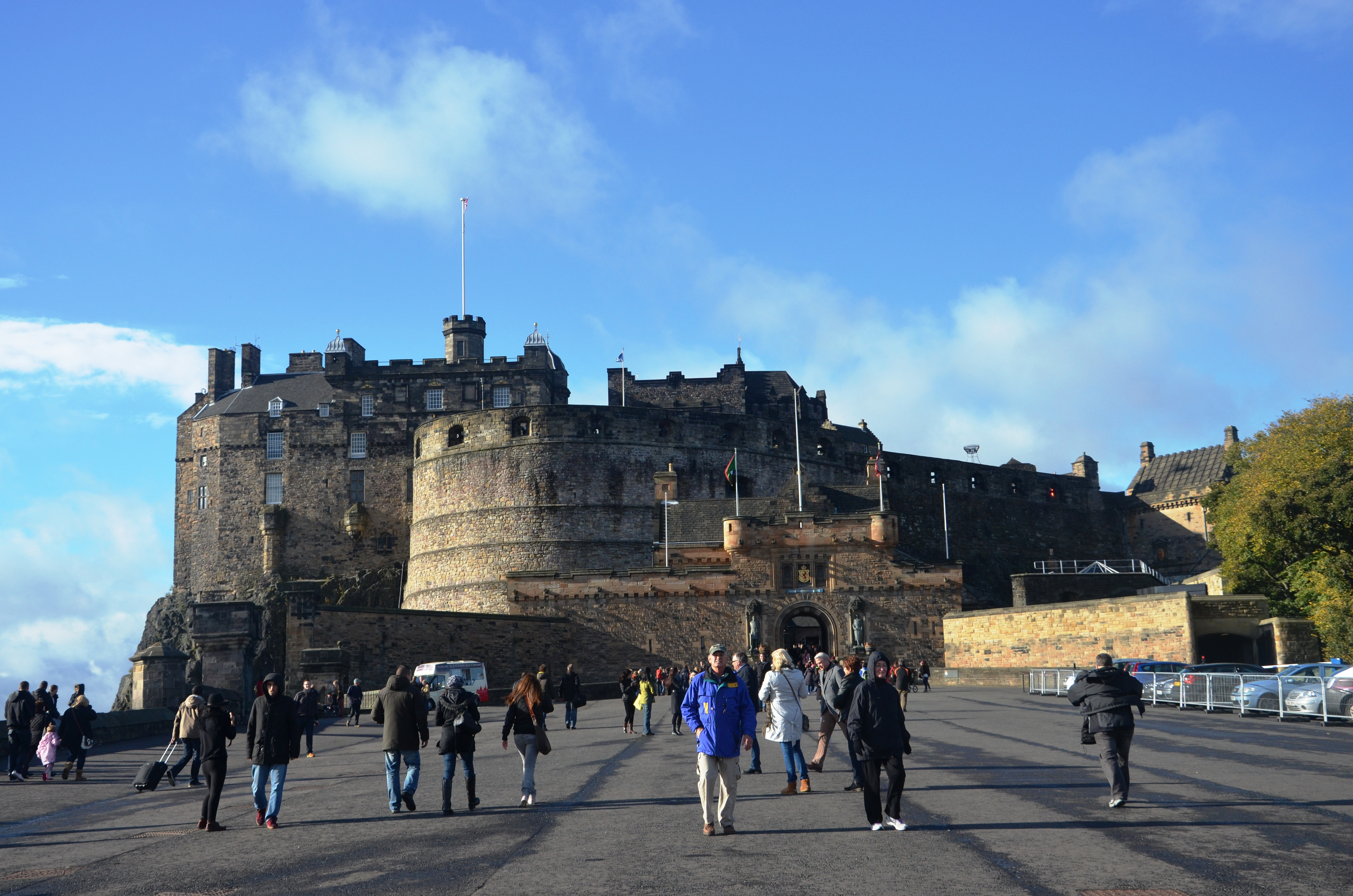 SOOC. On a bright but blustery day.